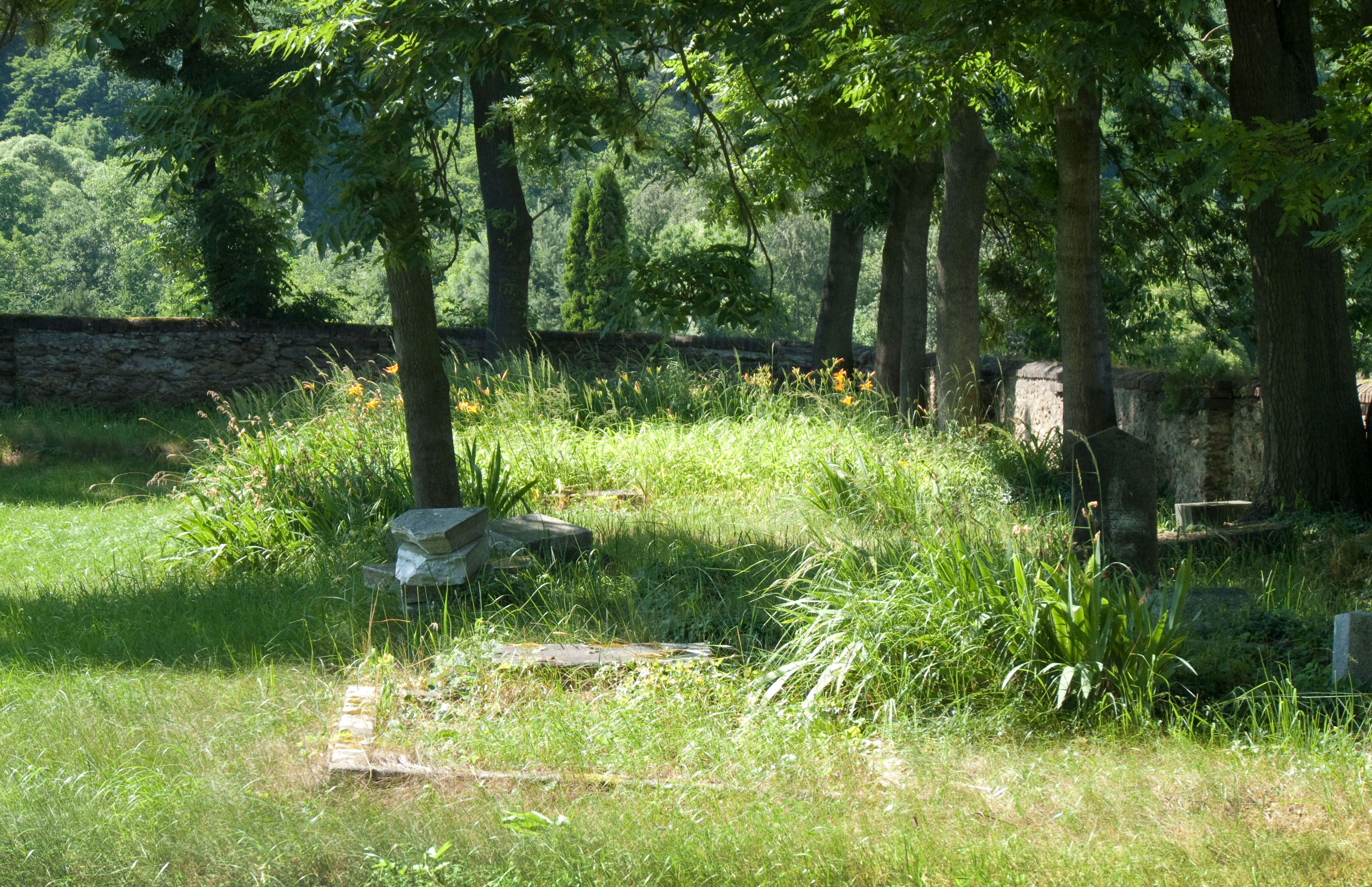 North-west corner of the Jewish cemetery in Vlašim, Benešov district, Czech Republic